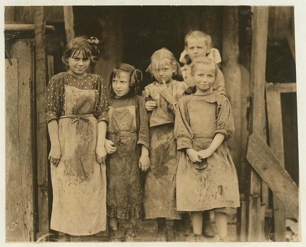 Some of the children who go to school half a day, and shuck four hours before school and several hours after school and eight or nine hours on Saturday. Maggioni Canning Co. Location: Port Royal, South Carolina.